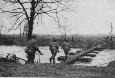 American Troops crossing the Roer, Feb.'45